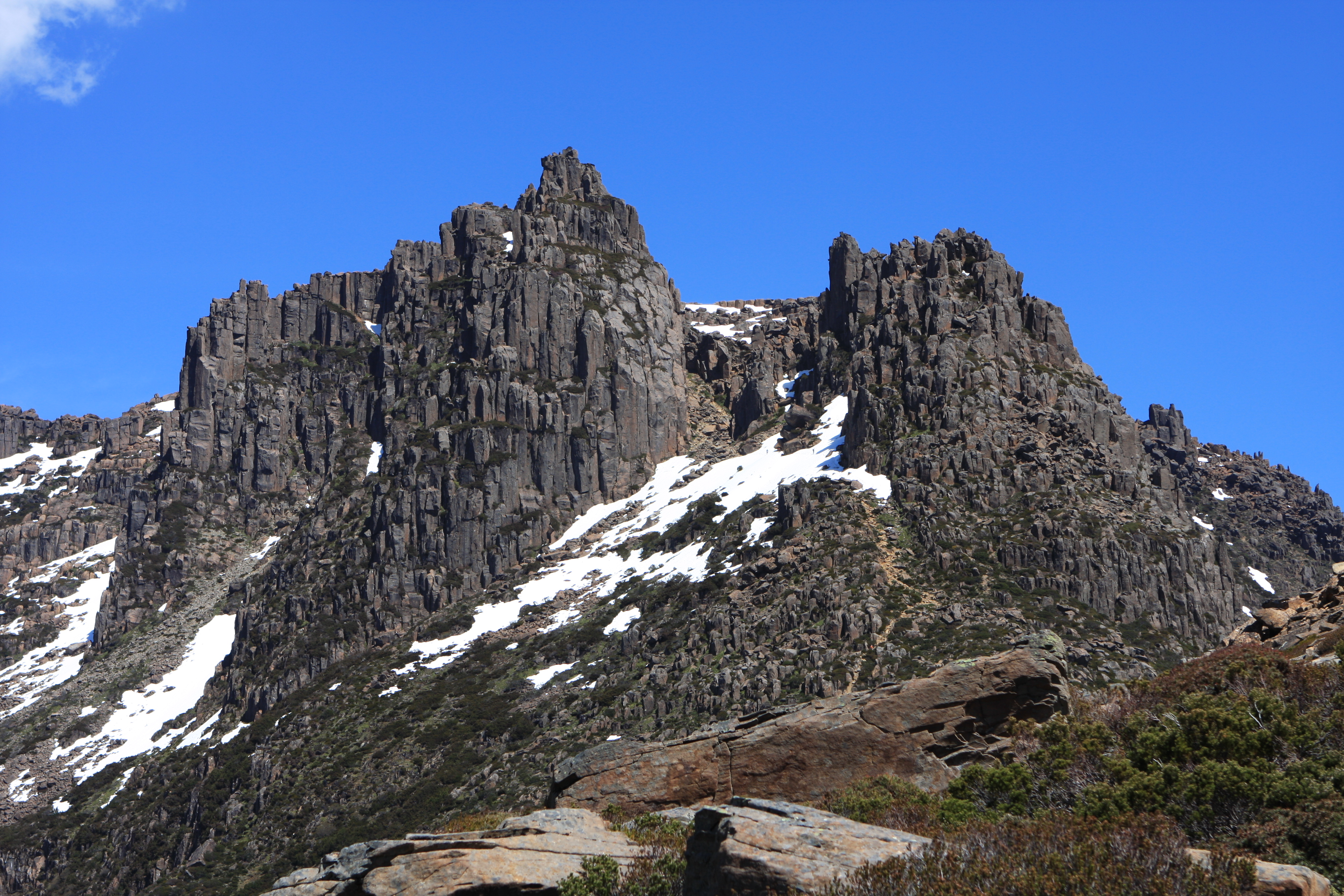 We scrambled up to Mount Ossa - highest mountain in Tasmania, at 1,614 metres (5,295 ft) Day 4 of Overland Track Australia oz2009 298